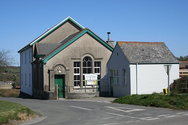 Frogpool Methodist Church. A Methodist Church which is still used for its original purpose.